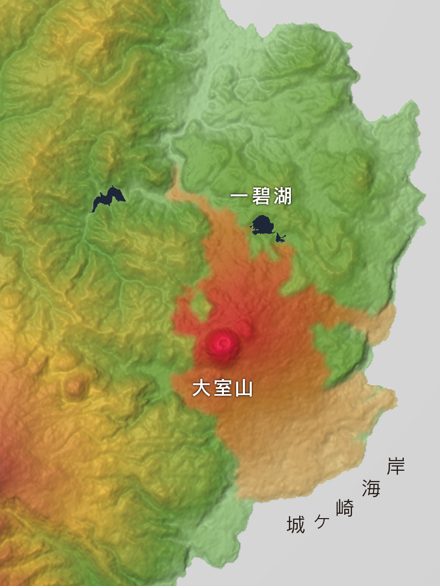 Lava flows of Mount Ōmuro (Ōmuro-yama) in eastern Izu Peninsula, Shizuoka Prefecture, Honshu, Japan.